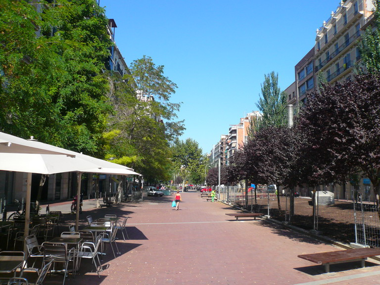 Mistral avenue, Barcelona.